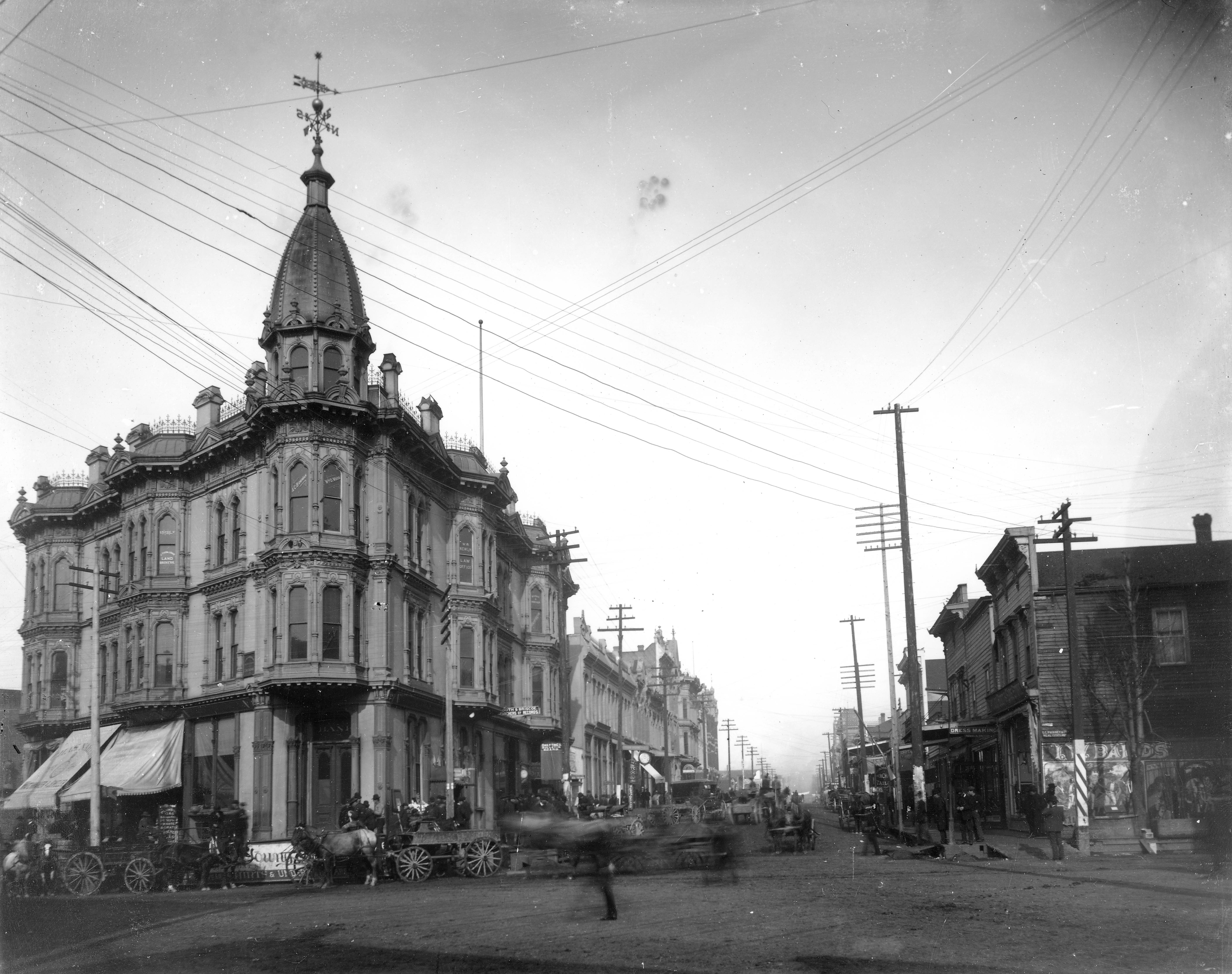 Warner 303 Subjects (LCTGM): Utility poles--Washington (State)--Seattle; Central business districts--Washington (State)--Seattle; Weather vanes--Washington (State)--Seattle; Carts & wagons--Washington (State)--Seattle; Yesler Way (Seattle, Wash.) Subjects (LCSH): First Avenue (Seattle, Wash.); Streets--Washington (State)--Seattle; Yesler-Leary Building (Seattle, Wash.)